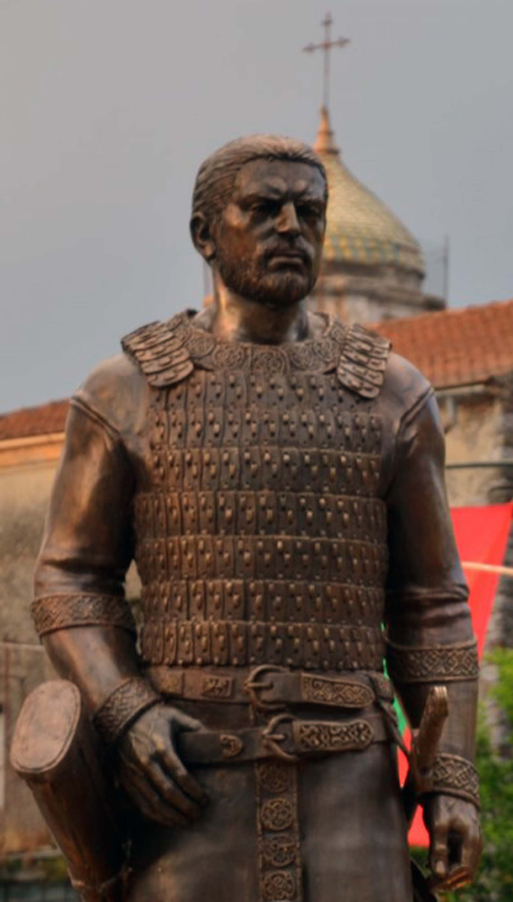 Celle di Bulgheria - Bulgarian khan Alcek monument